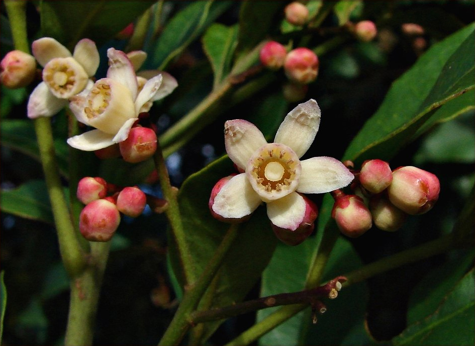 Synoum glandulosum Family Meliaceae Small bushy tree up to 7m tall. Small flowers at the end of branches in autumn. .au/cgi-bin/NSWfl.pl?page=nswfl&am... Australian native. Common in moist eucalypt forest around Sydney Location: O'Reily's in Lamington National Park. Queensland Australia